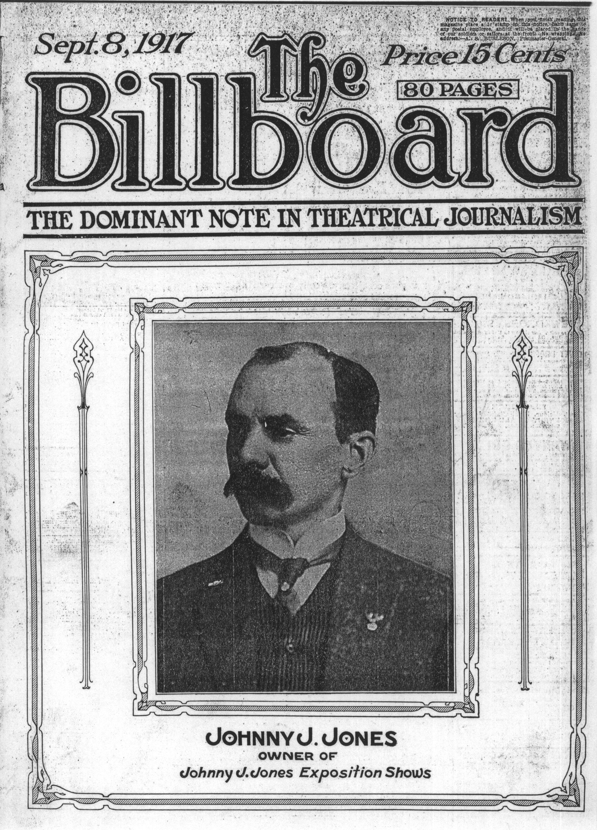 Johnny J. Jones,The Billboard, 1917 Other information Courtesy of Circus World of the Wisconsin Historical Society